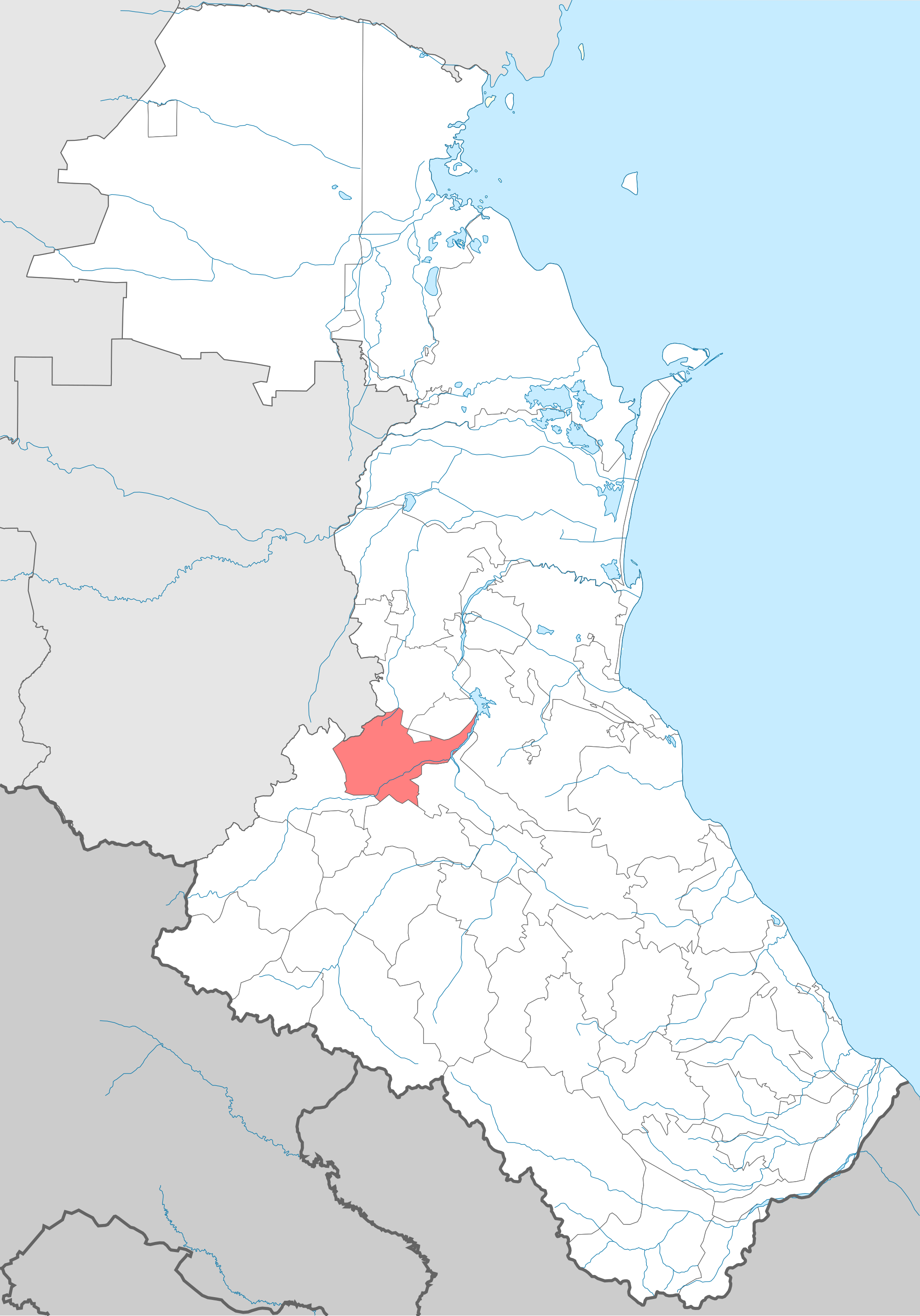 Gumbetovsky district locator map